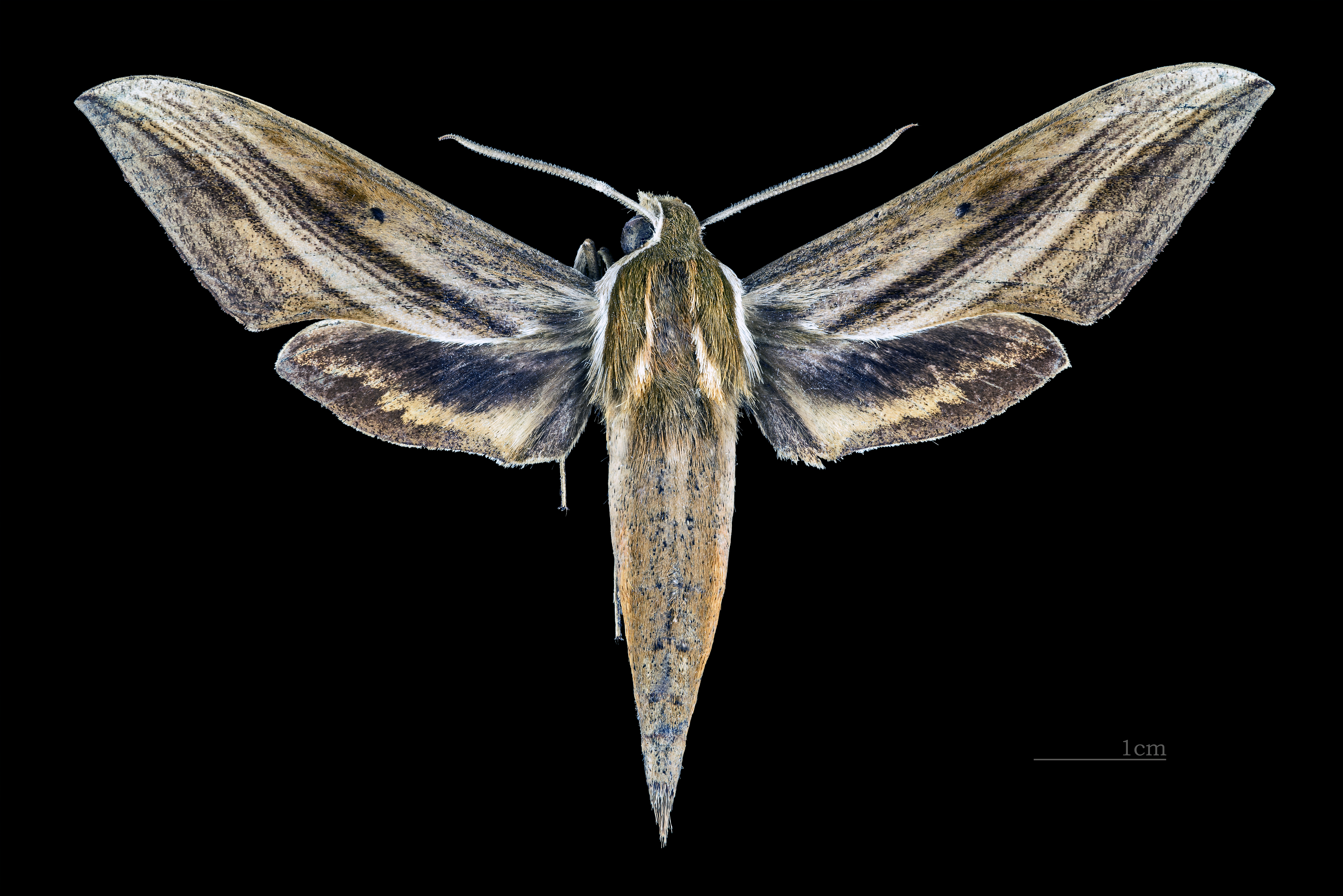 Xylophanes josephinae - Dorsal side Collection of the Mathematician Laurent Schwartz